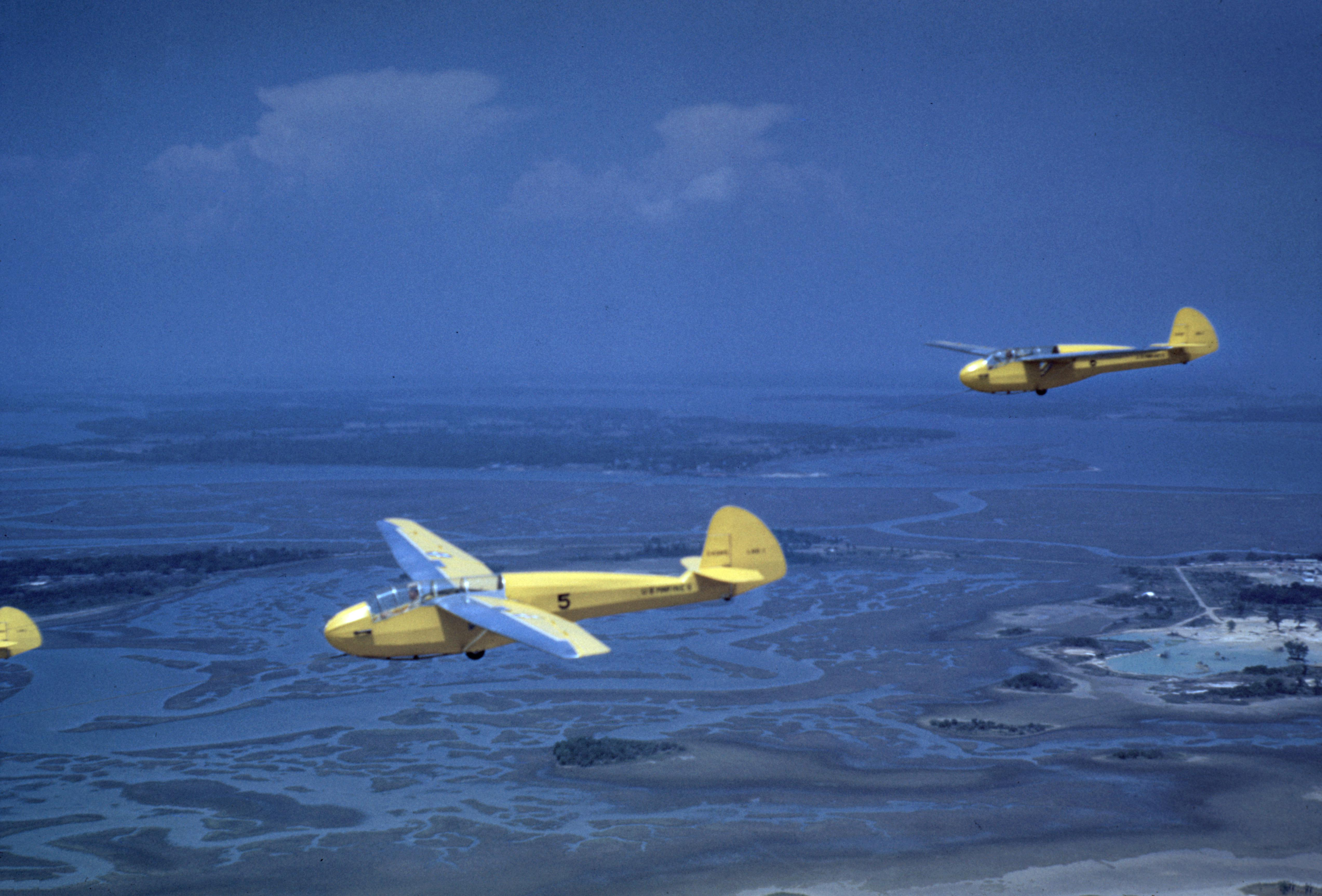 Marine Corps gliders in flight out of Parris Island, S.C.